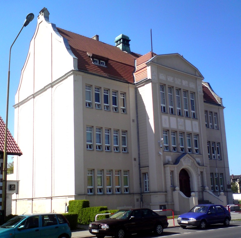 High school number 2 in Gryfice (Poland)